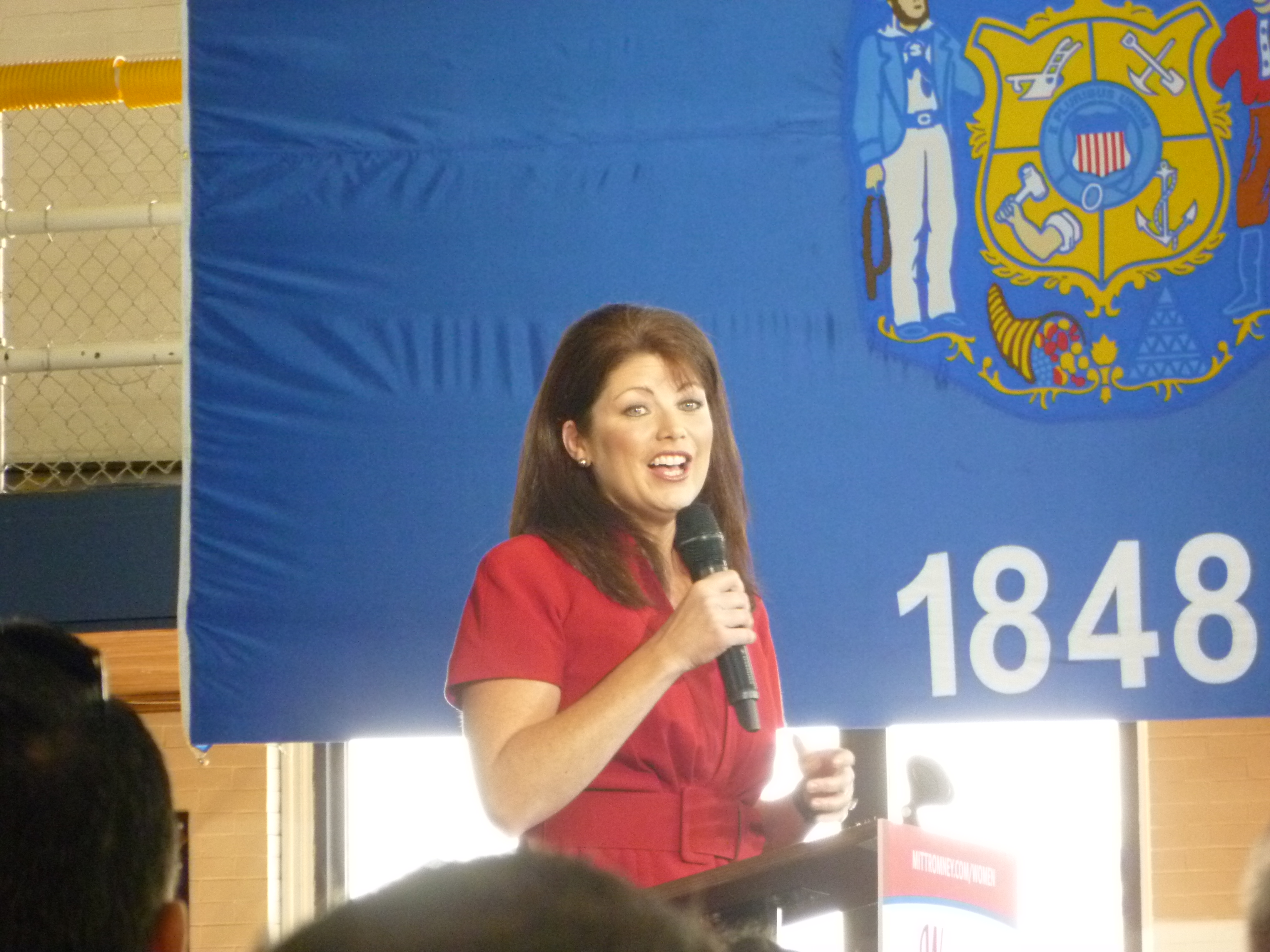 Wisconsin Lt. Governor Rebecca Kleefisch at a "Women for Romney" rally at Marquette University, September 20, 2012